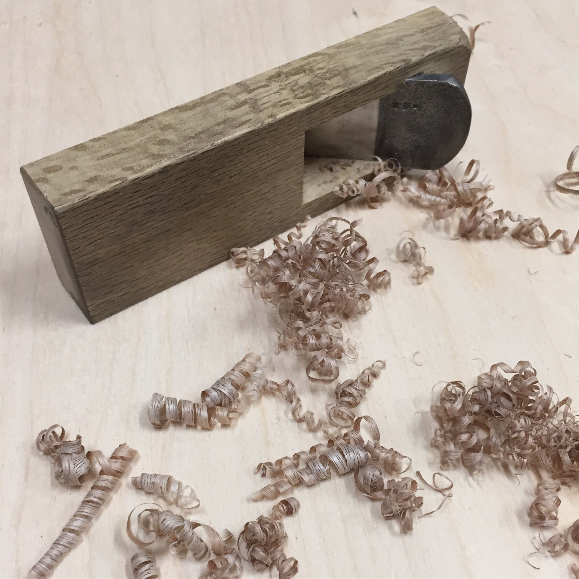 A Japanese woodworking handplane - called a kanna - with wood shavings. This tool is from the studio of artist and woodworker Teresa Audet.